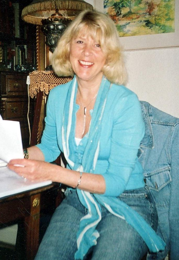 American-Swedish theatrical director Annabelle Rice, as released by image owner FamSACPlace: Hökens gata 3 A, Stockholm, Sweden